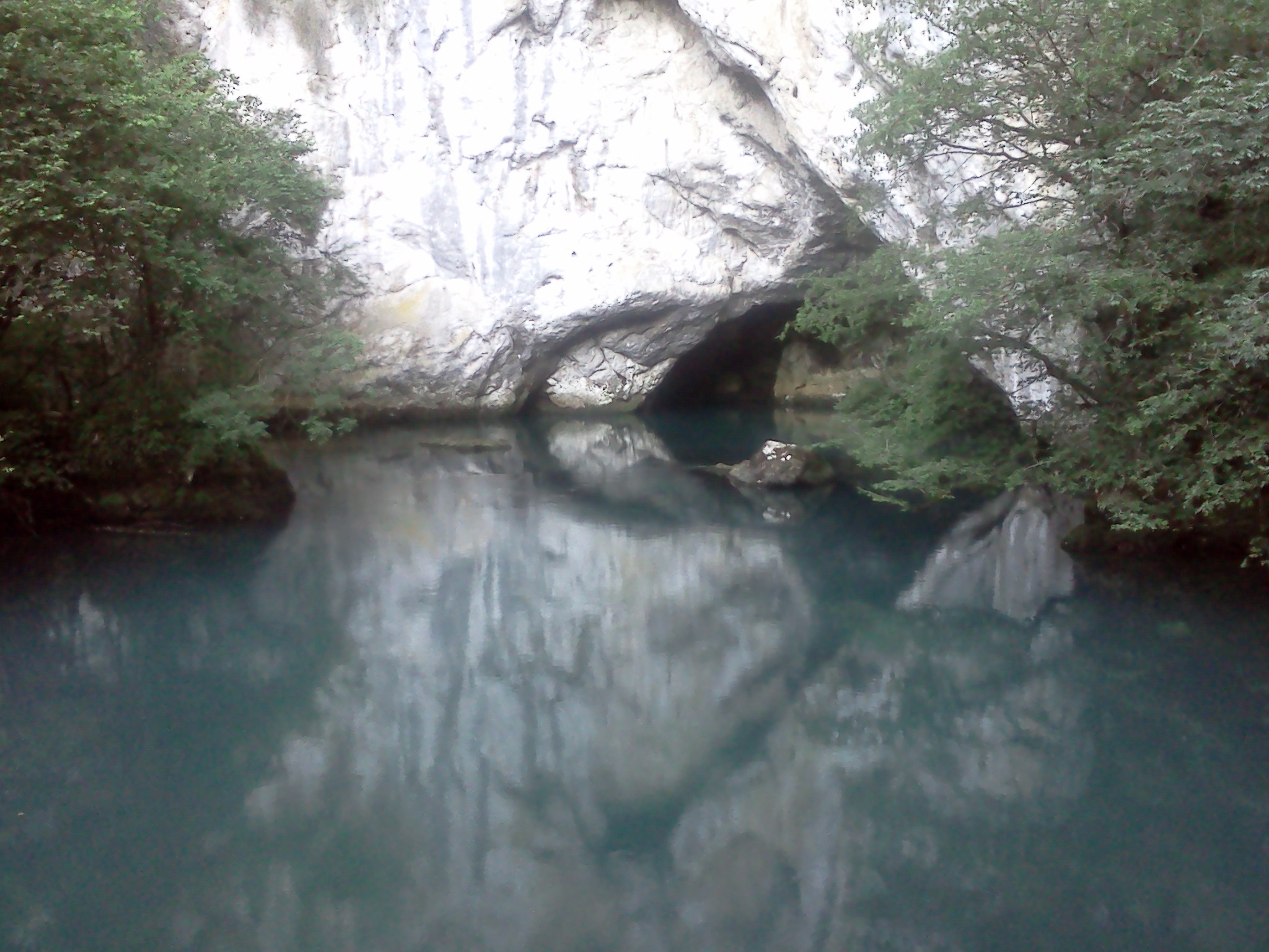 River Krušnica